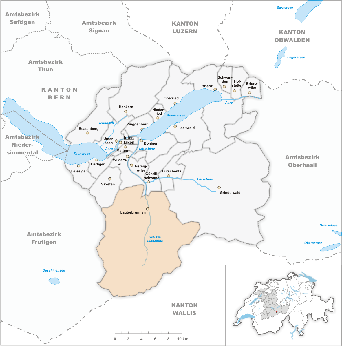 Municipality Lauterbrunnen